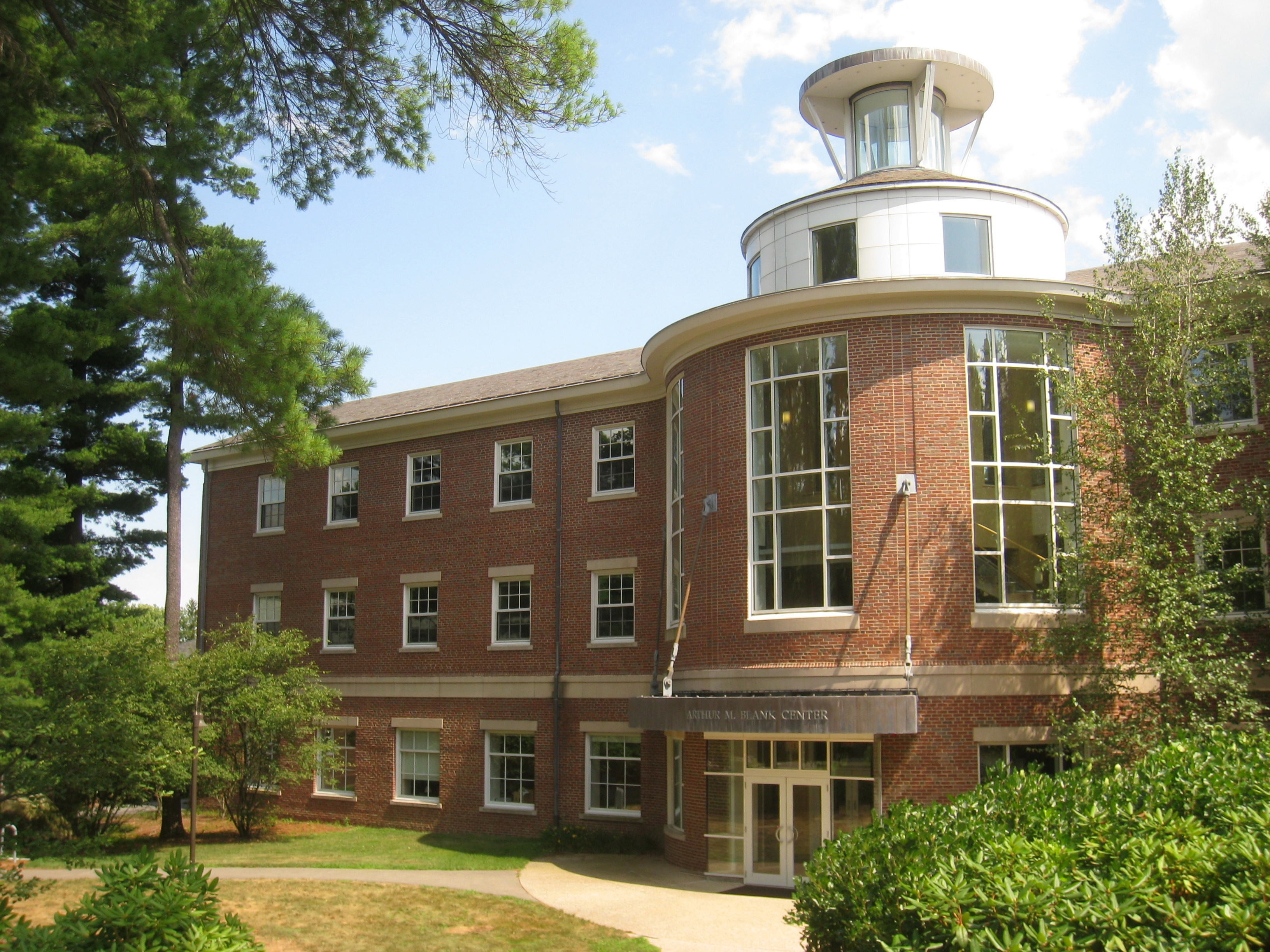 Arthur M. Blank Center, Babson College, 231 Forest Street, Wellesley, Massachusetts, USA.